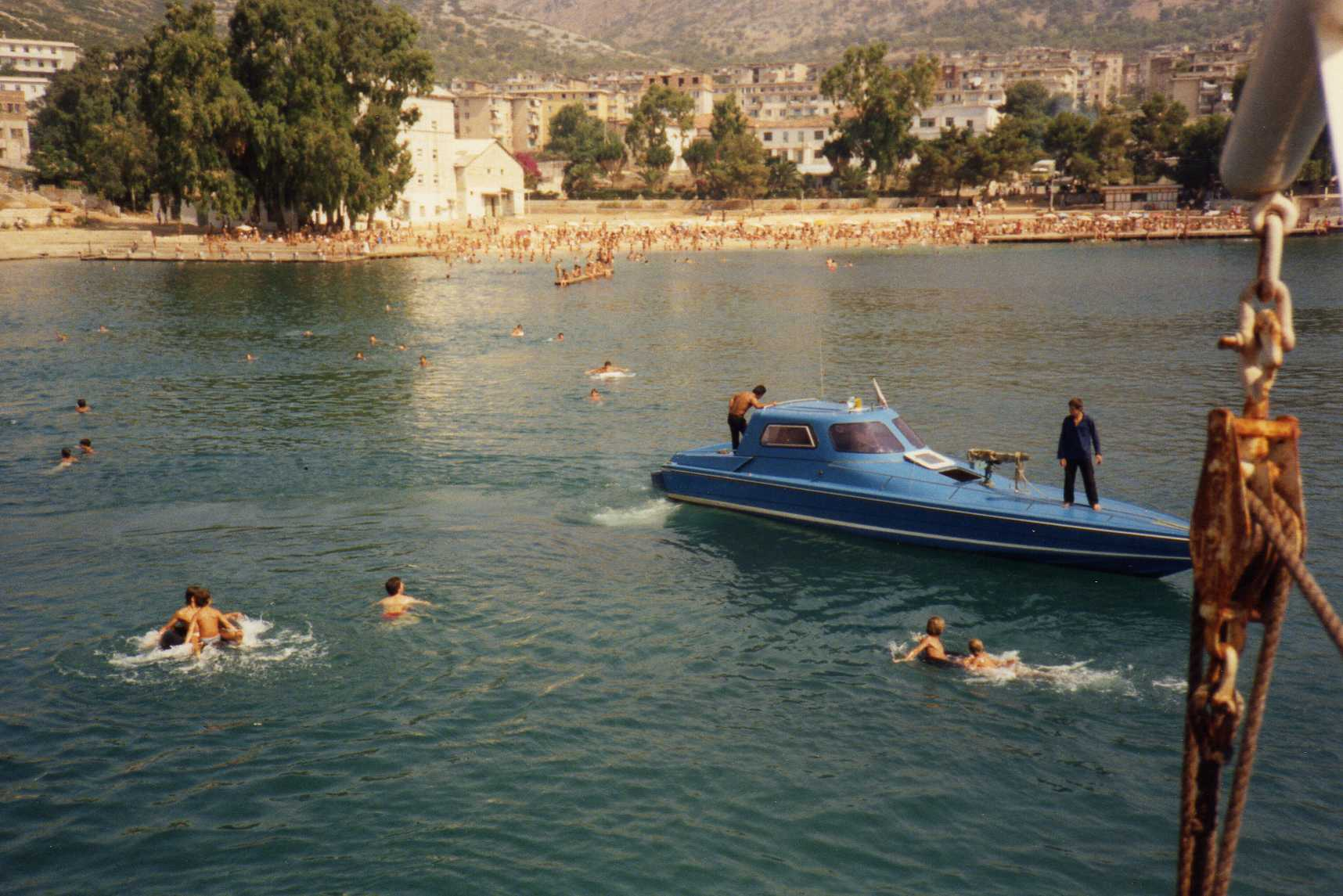 July 1991. Gunboats chased away the little boys who swam out to greet the boat - I was not sure if that was for our protection, or to keep the boys from trying to escape. The beach was certainly very popular!